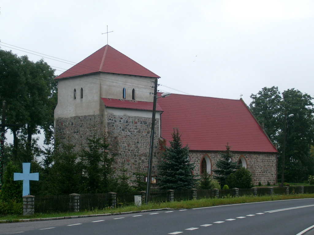 John Cantius church in Wapnica (gmina Suchań), Poland